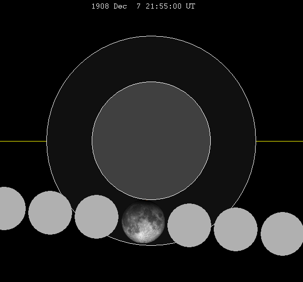 December 1908 lunar eclipse chart of moon's penumbral lunar eclipse path through the earth's shadow. thumb